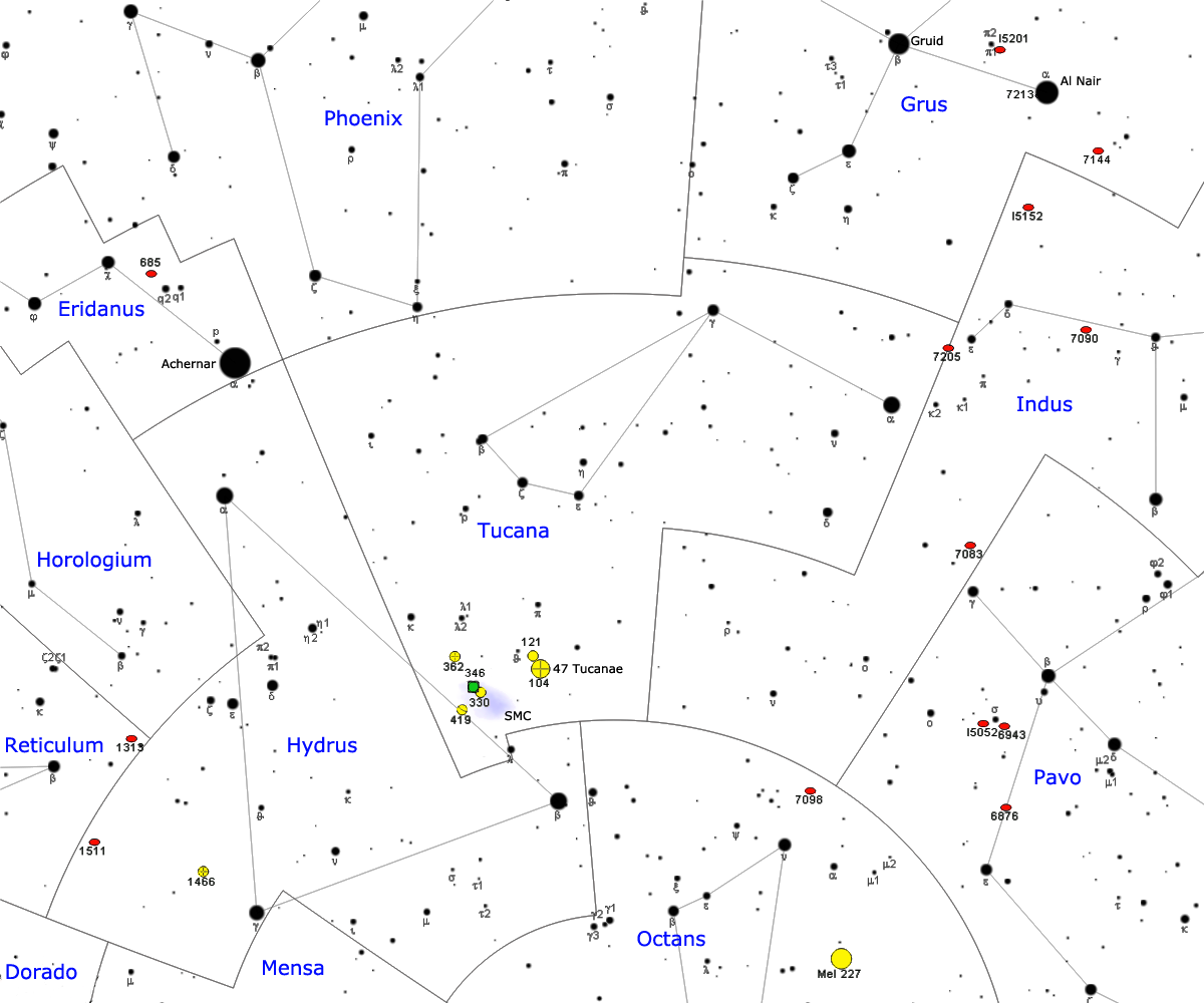 Map of Tucana